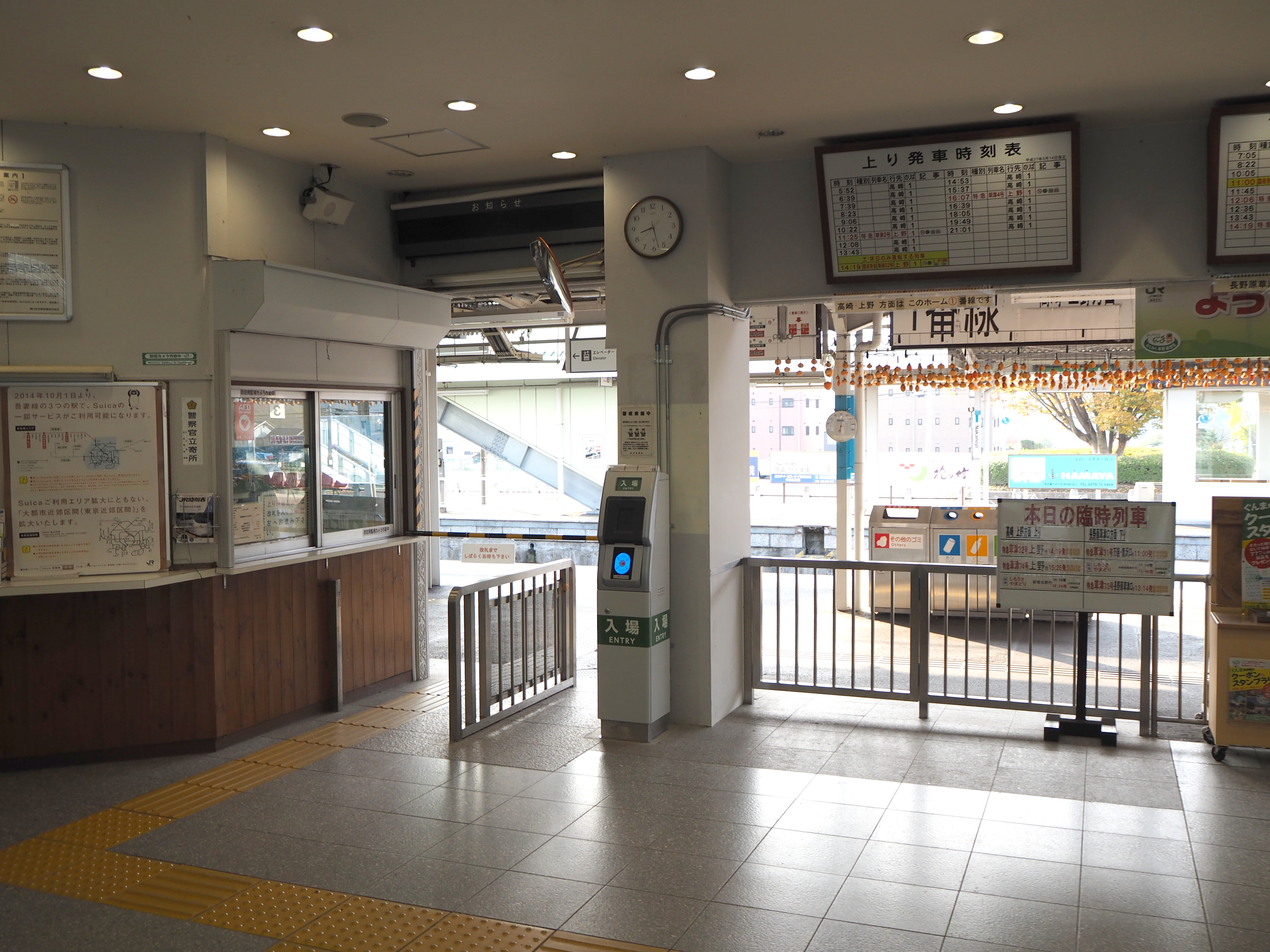 Ticket gate of Nakanojō Station